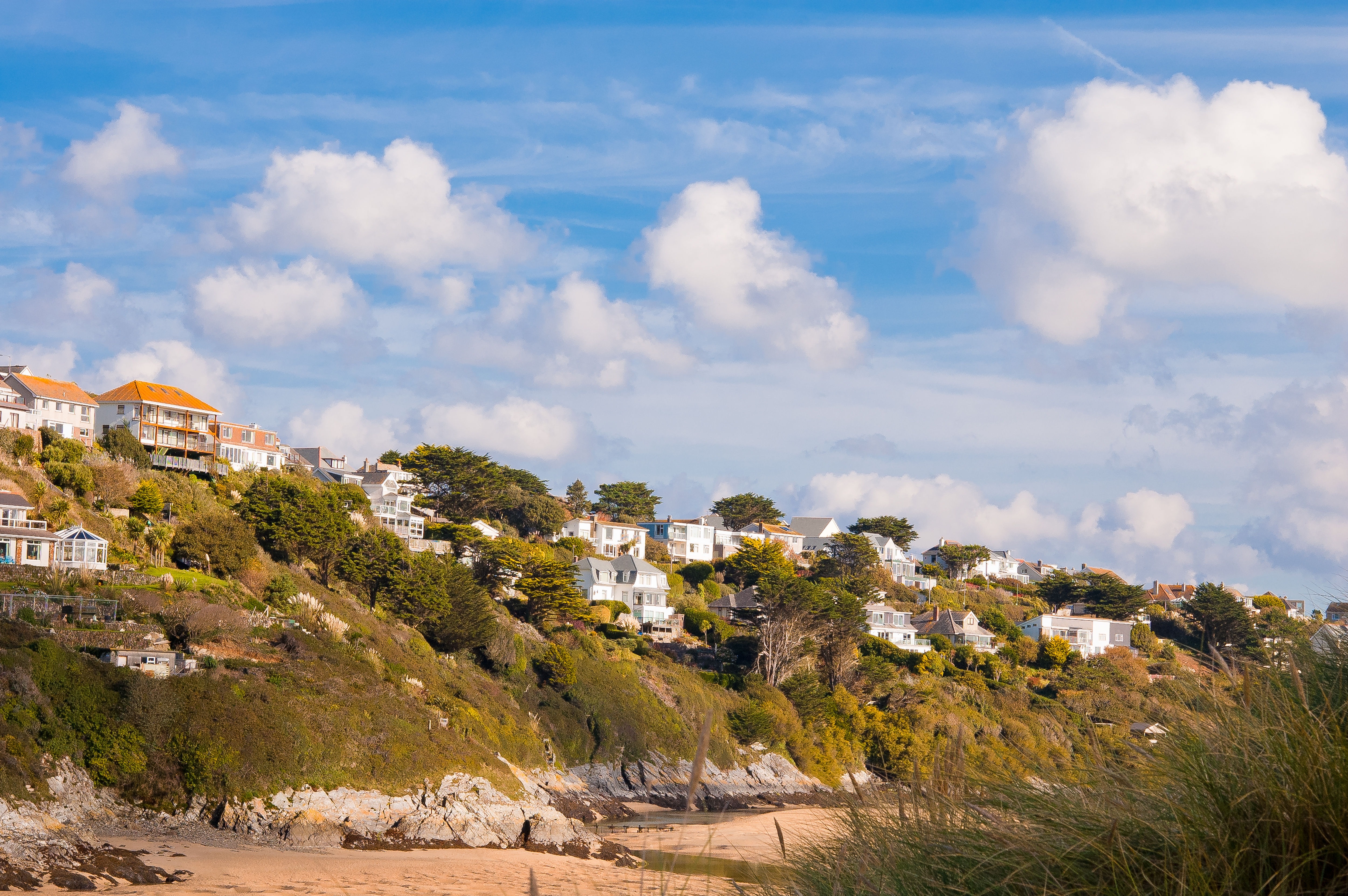 Crantock beach Become a fan on facebook